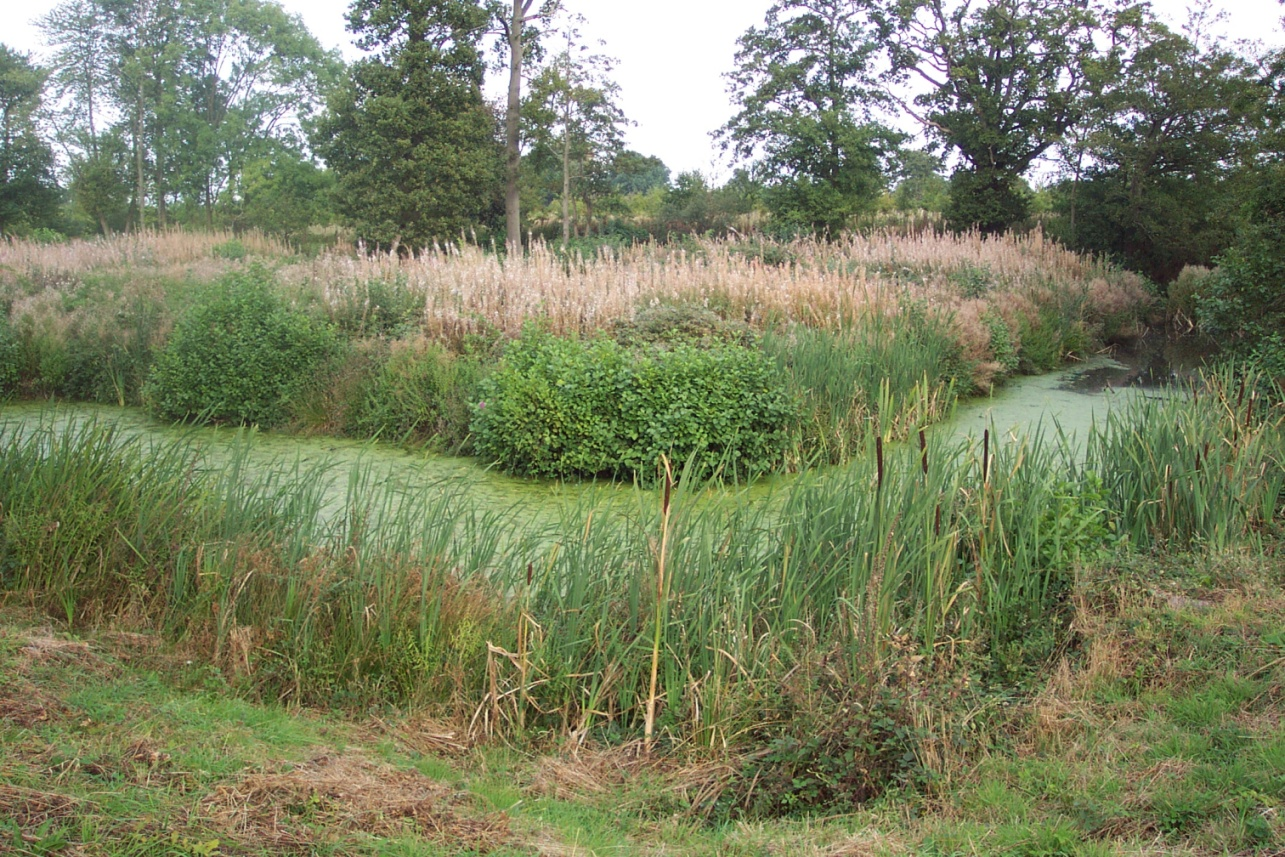 The moat and location of Ufton Robert manor house (now Ufton Nervet) in Berkshire, England.